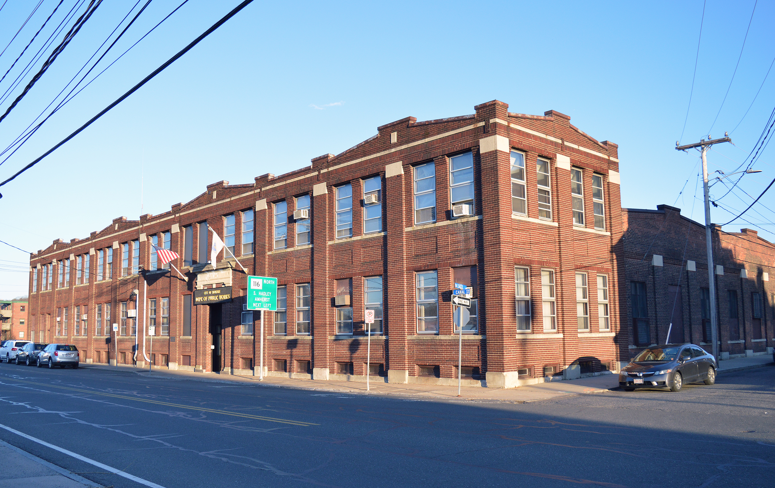 The Pellisier Building, built in 1914, presently it houses the offices, garage, trash transfer station, and maintenance shop of the Holyoke Department of Public Works. Previous to this it was the offices and car barn of the Holyoke Street Railway Company until 1937, and bus garages until 1987. The contractor was Casper Ranger.